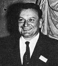 Krafft Arnold Ehricke, rocket-propulsion engineer, proponent of space industrialization, Father of the Centaur, creator of liquid hydrogen/liquid oxygen propulsion system, humanitarian.